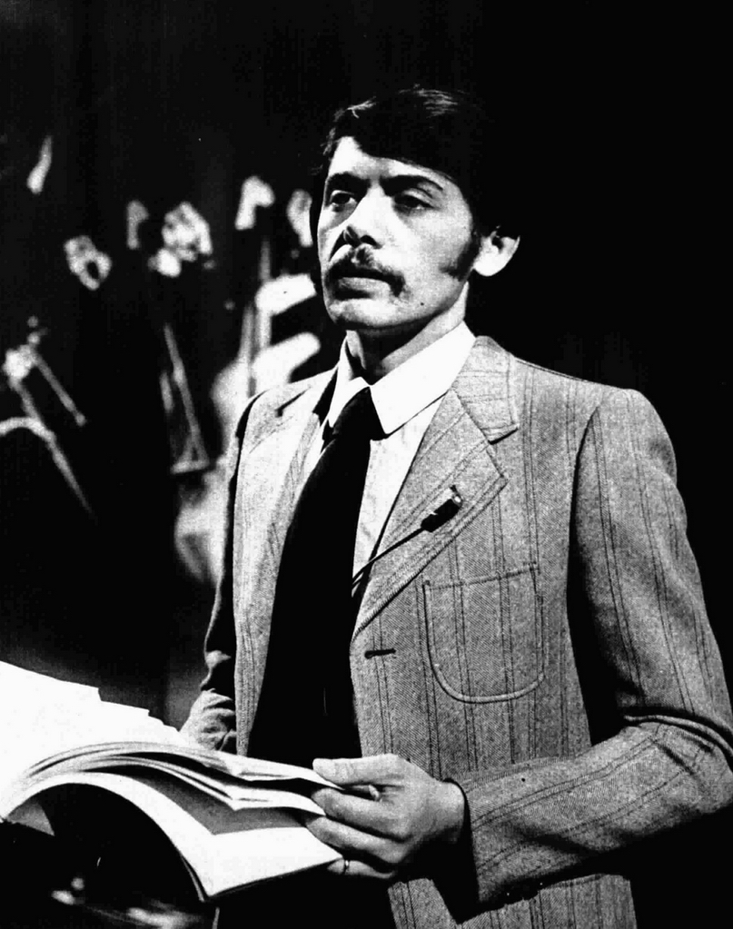 Italian actor Carlo Simoni